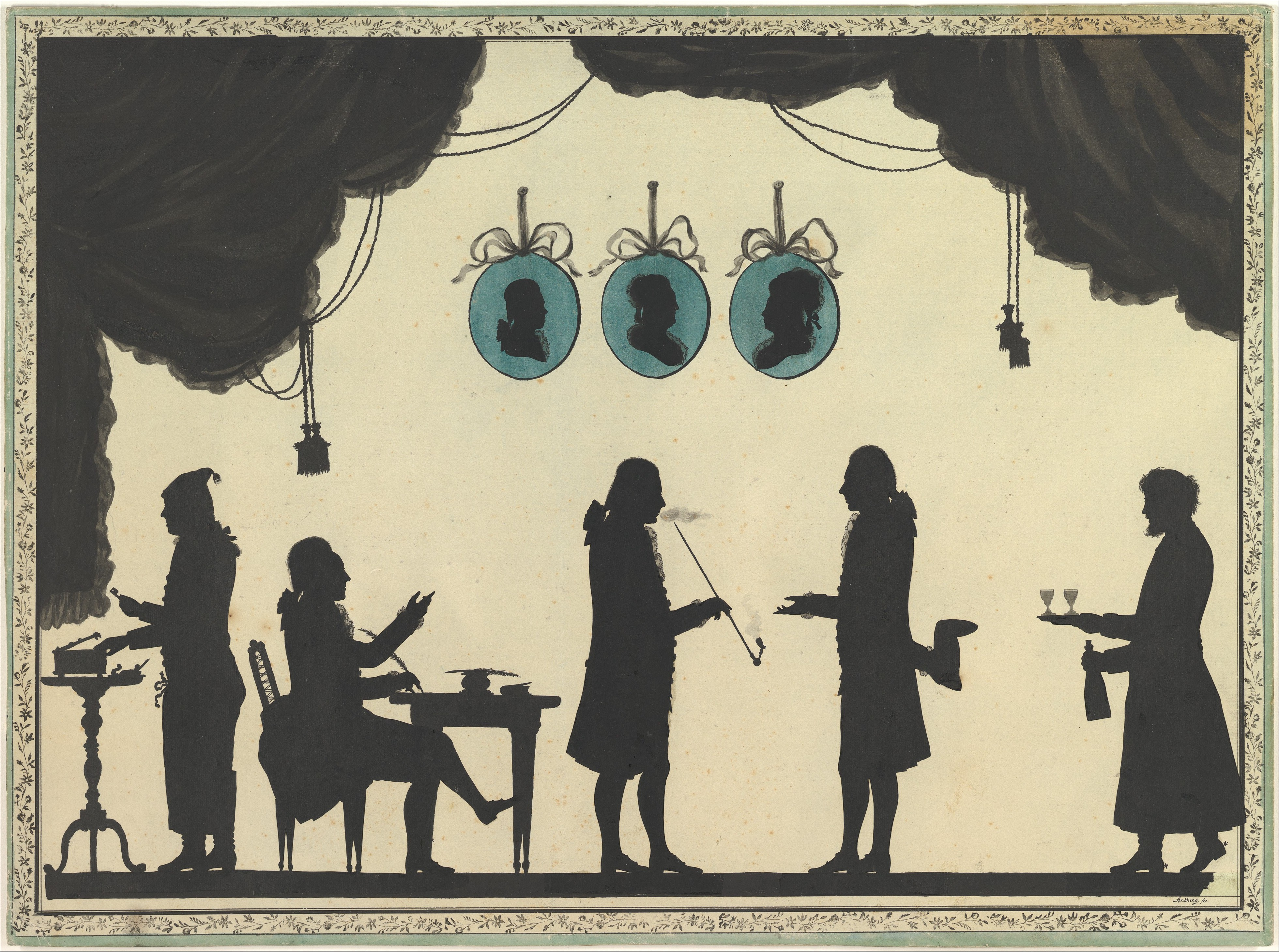 David Roentgen and Company in Saint Petersburg Johann Friedrich Anthing (German, Gotha 1753–1805 St. Petersburg) Date: ca. 1784–86 Medium: Cut paper with ink wash and watercolor Dimensions: sheet: 17 13/16 x 23 7/8 in. (45.3 x 60.6 cm) Classification: Cut Paper Credit Line: Gift of Leopold Heinemann, 1948 Accession Number: 48.73.1